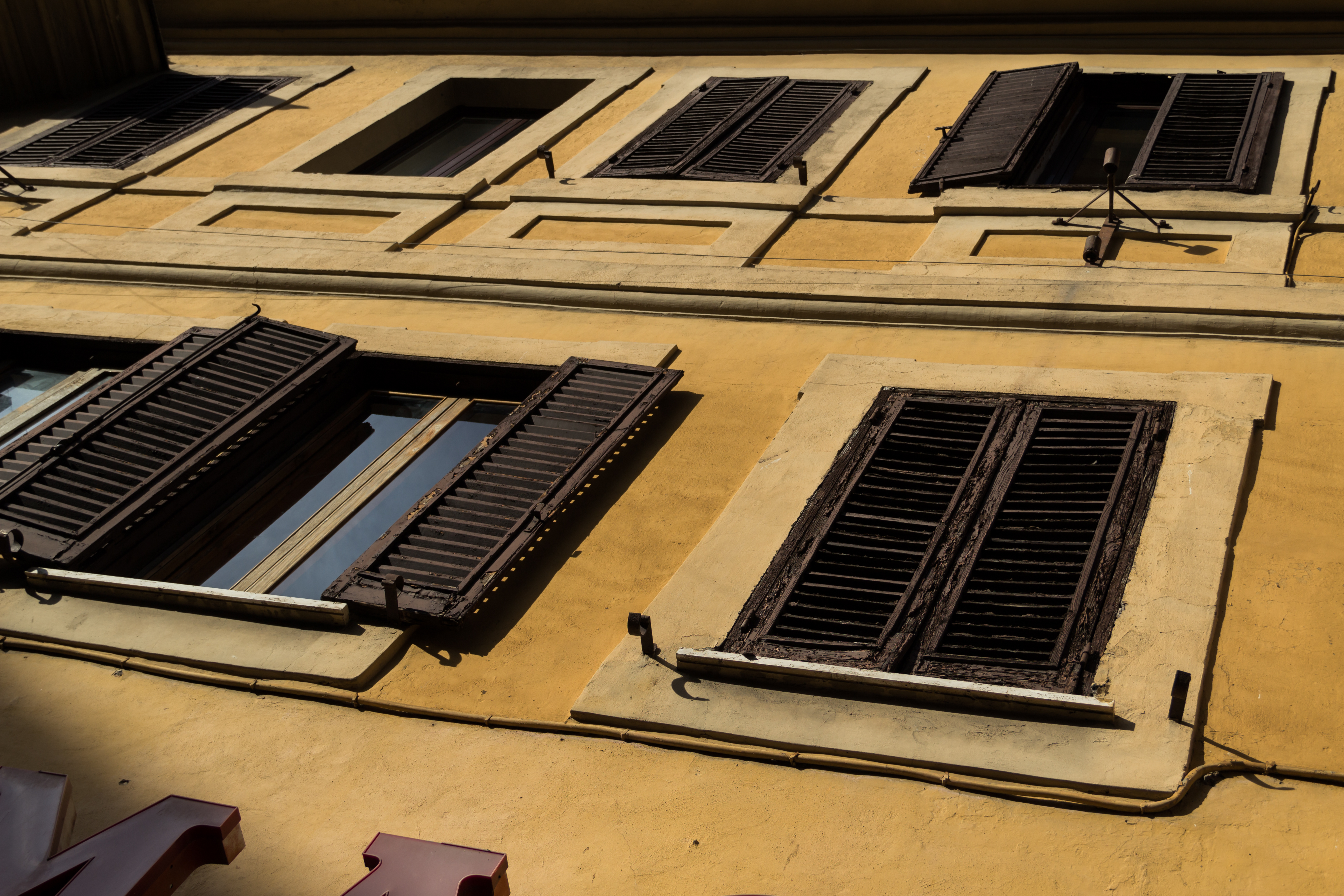 Window in Rome, Italy